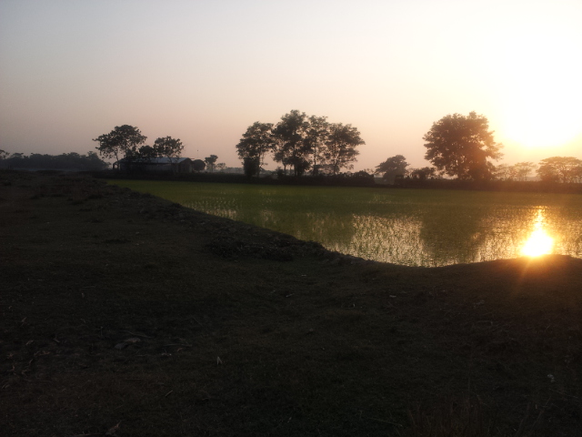 Sunset in Islampur village, Jagannathpur Upazila, Sunamganj, Bangladesh